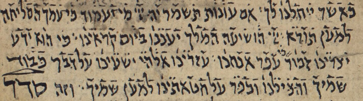 A segment from a Tiklal prayerbook authored by Shabazi himself, in his own hand. 1676.